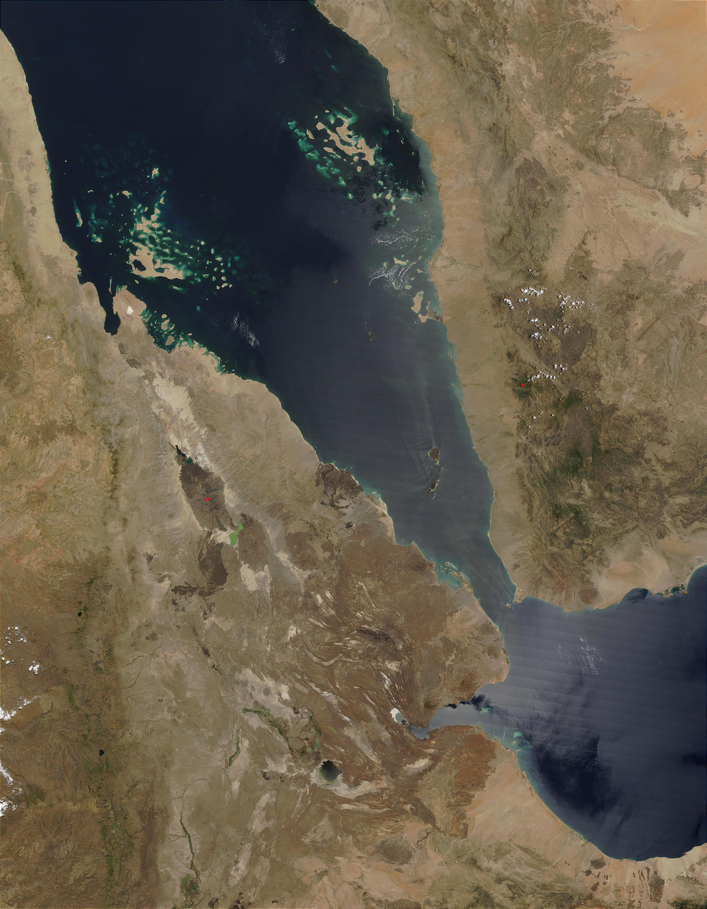 MODIS satellite image of the Afar depression and surrounding area.